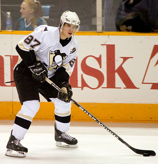 Pittsburgh Penguins vs. San Jose Sharks